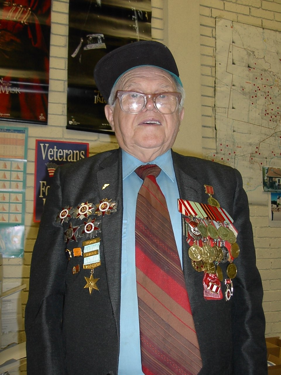 Taken by User:Adam Carr, April 2005.